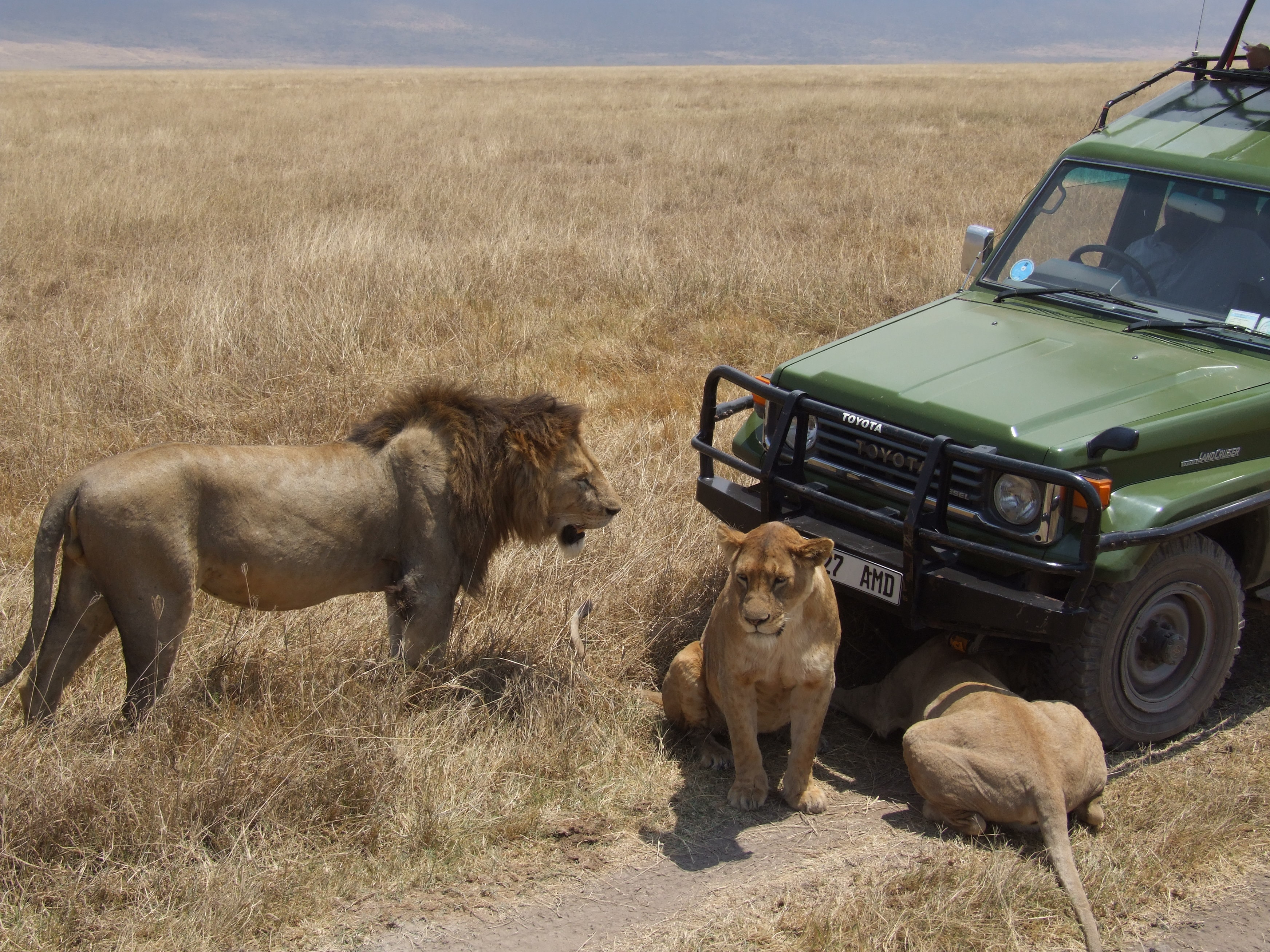 Lion in Ngorongoro